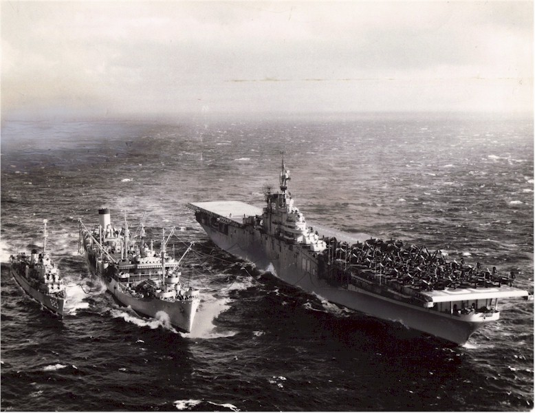 The U.S. Navy fleet oiler USS Caloosahatchee (AO-98) refuels the aircraft carrier USS Leyte (CV-32) and the destroyer USS Samuel B. Roberts (DD-823) during "Operation Frigid" on 20 November 1948.